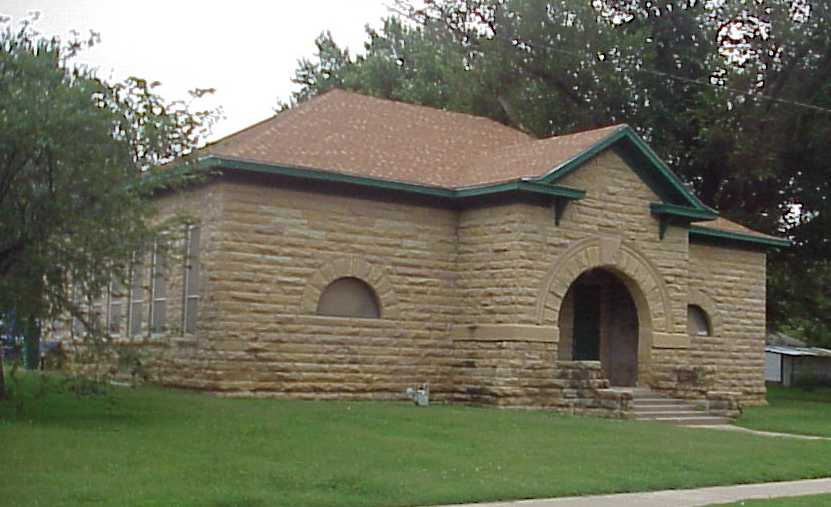 Dawson School, Tulsa, Oklahoma. Built in 1908 (before the town of Dawson had been absorbed by Tulsa.) Richardsonian Romanesque style. Listed on NRHP.